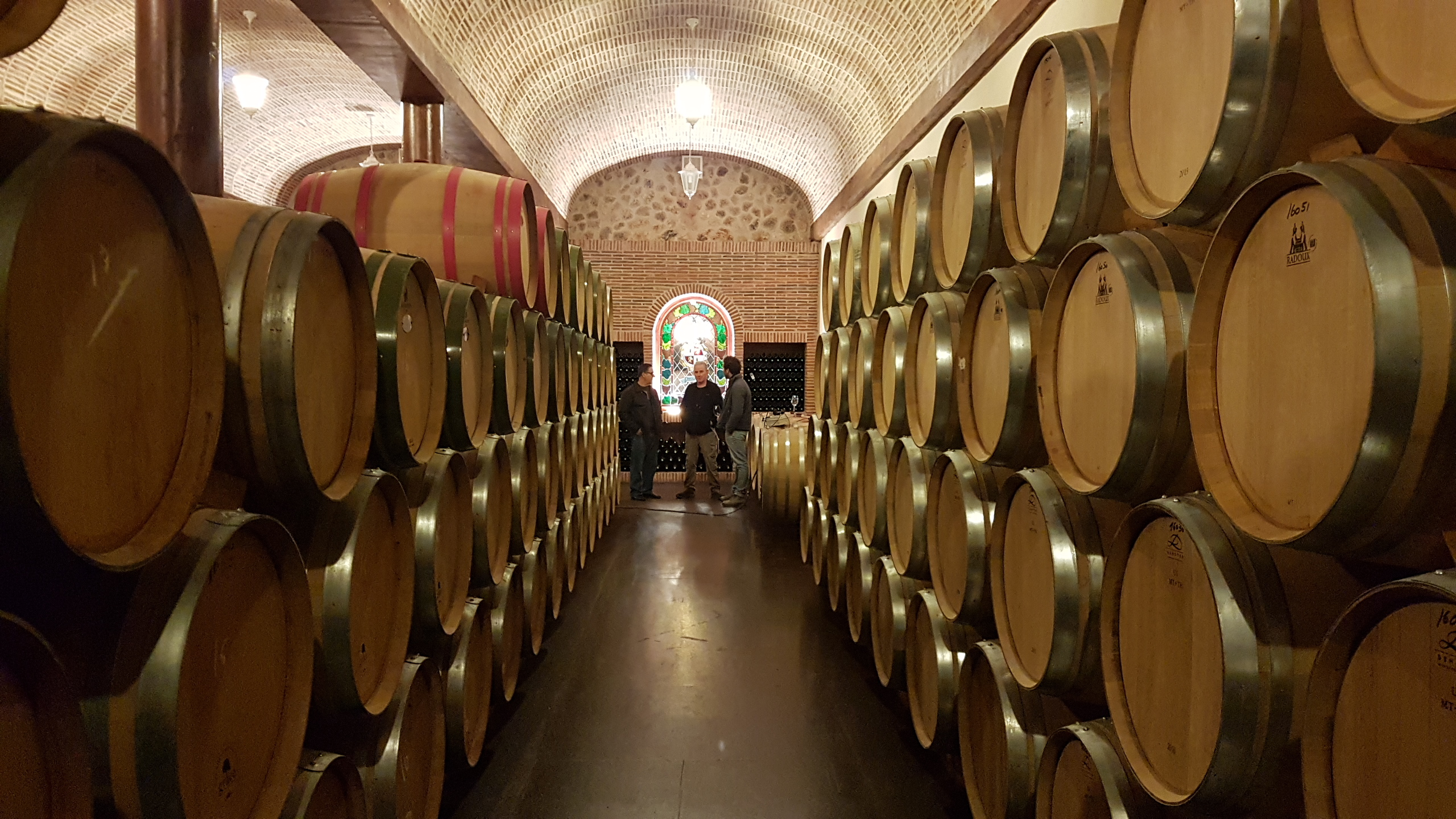 Wine Barrels in Bodegas Casajus in Ribera del Duero, Spain